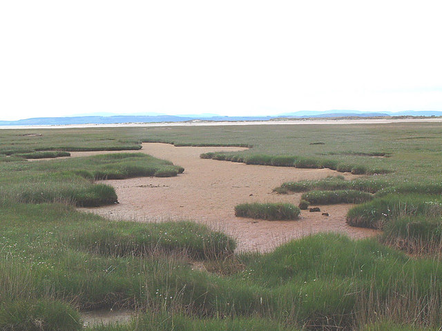 Culbin Salt Marsh. Large, enclosed area of bare sand on the saltmarsh. There were several of these but this was one of the biggest.